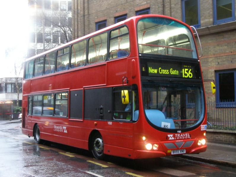 Travel London V60 (now numbered 9060) (BX55 XNO) laying over on route 343 but showing incorrect blinds.